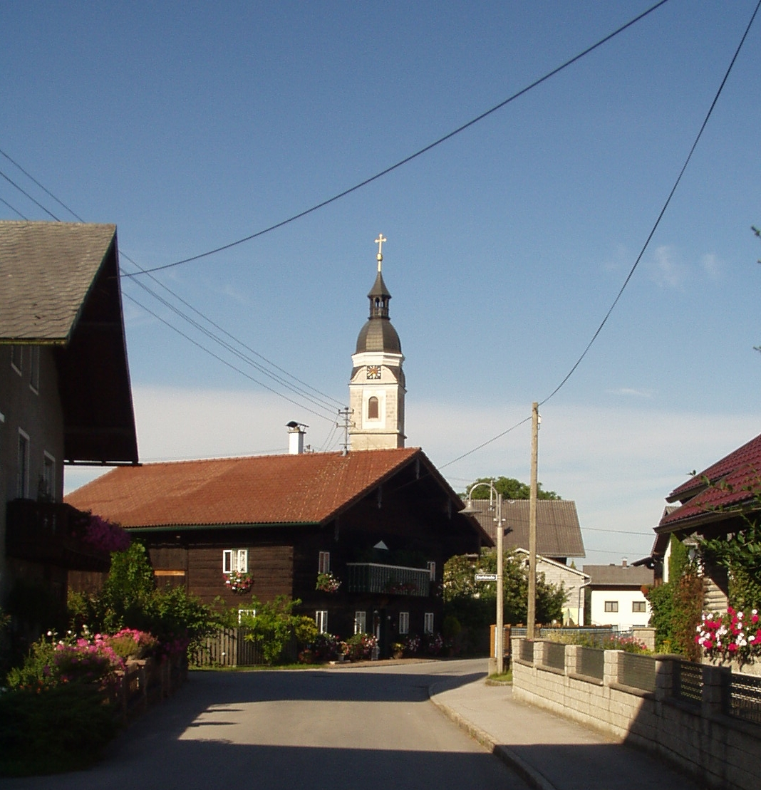 Lengau, Flörlplainer Straße and St James' Parish Church from west.